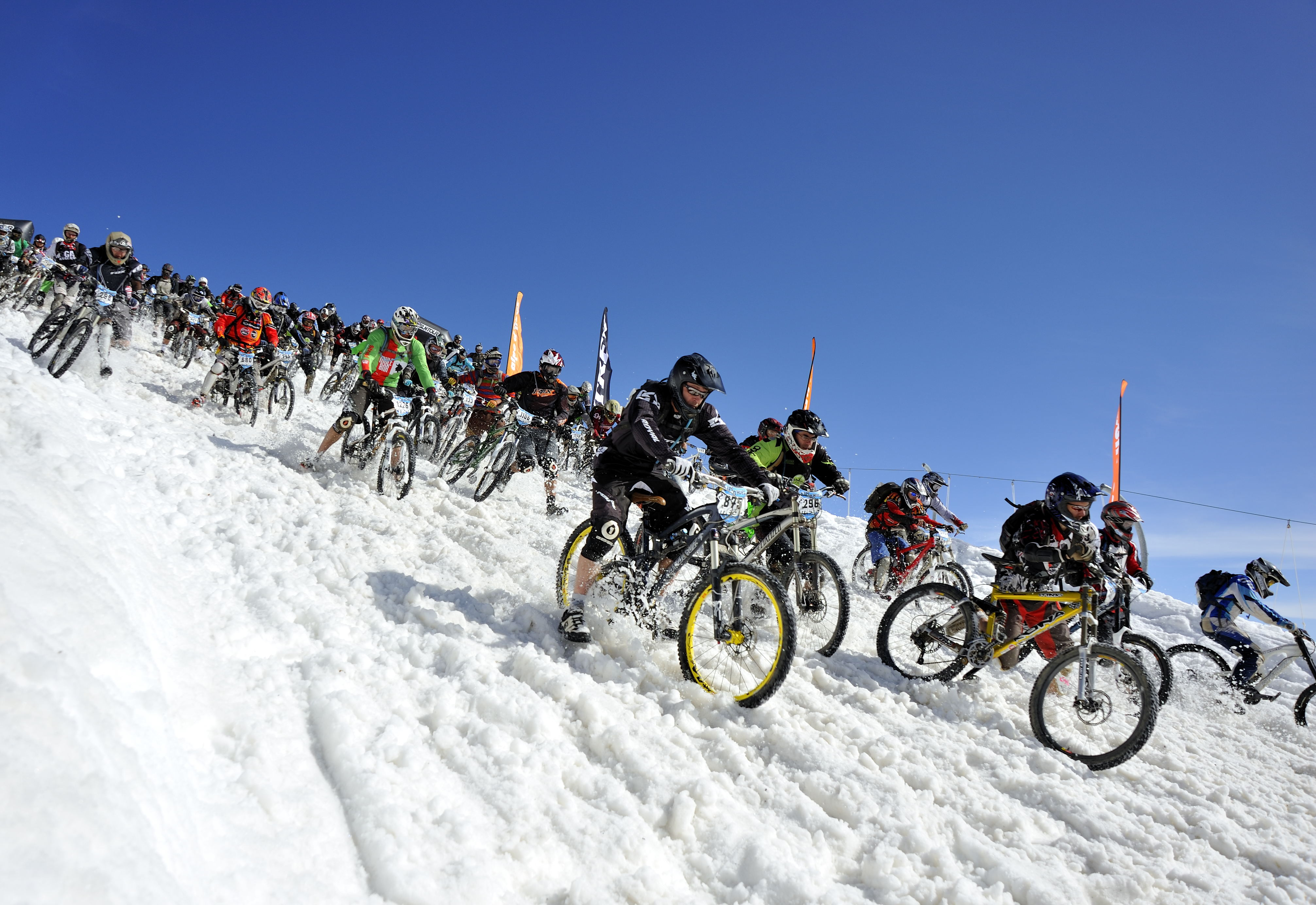 Megavalanche start at l'Alpe d'Huez in France